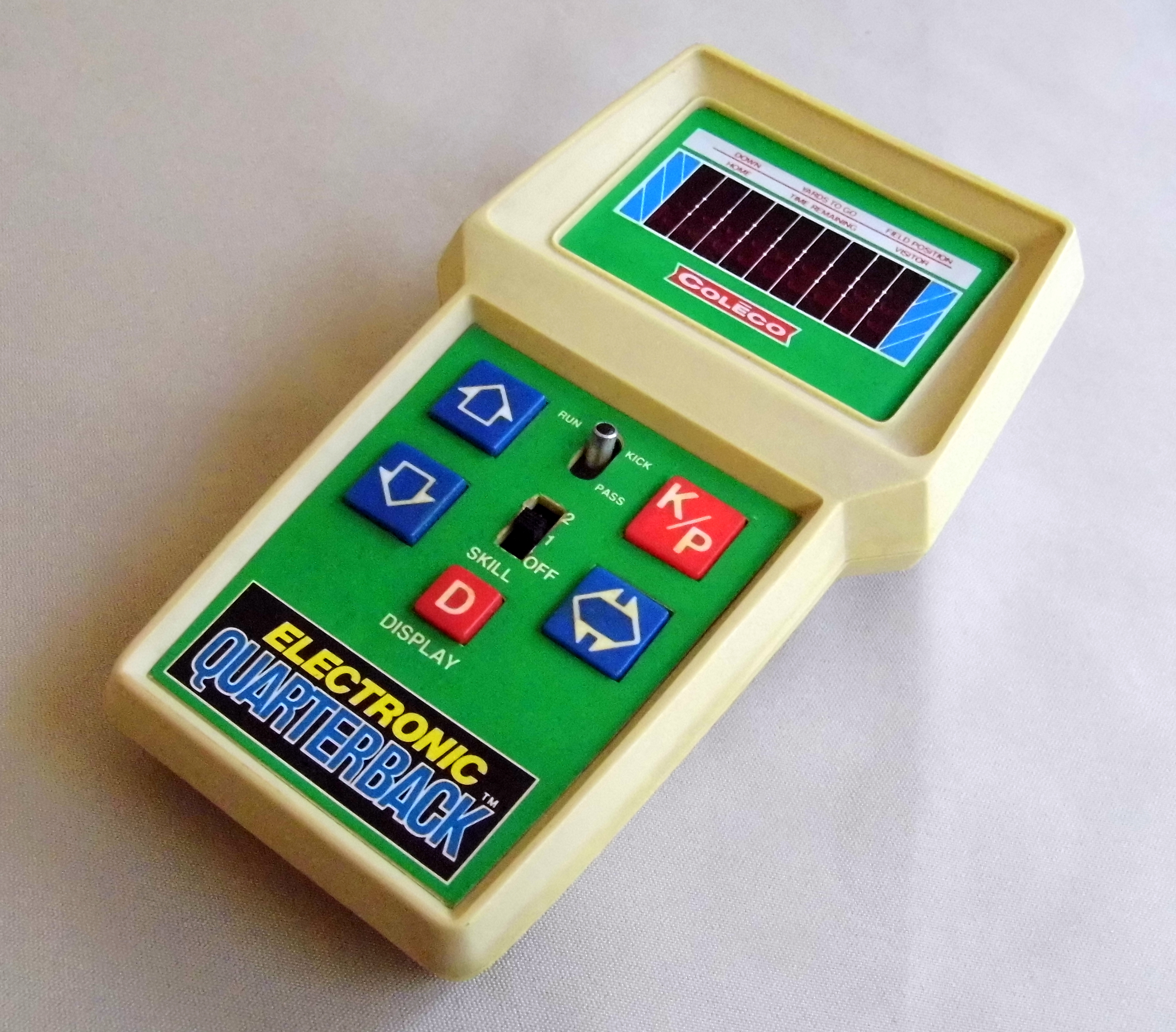 Vintage Coleco LED "Electronic Quarterback" Handheld Game, Made in Hong Kong, Circa 1978 A good source of information on vintage handheld electronic games is the Electronic Handheld Game Museum .